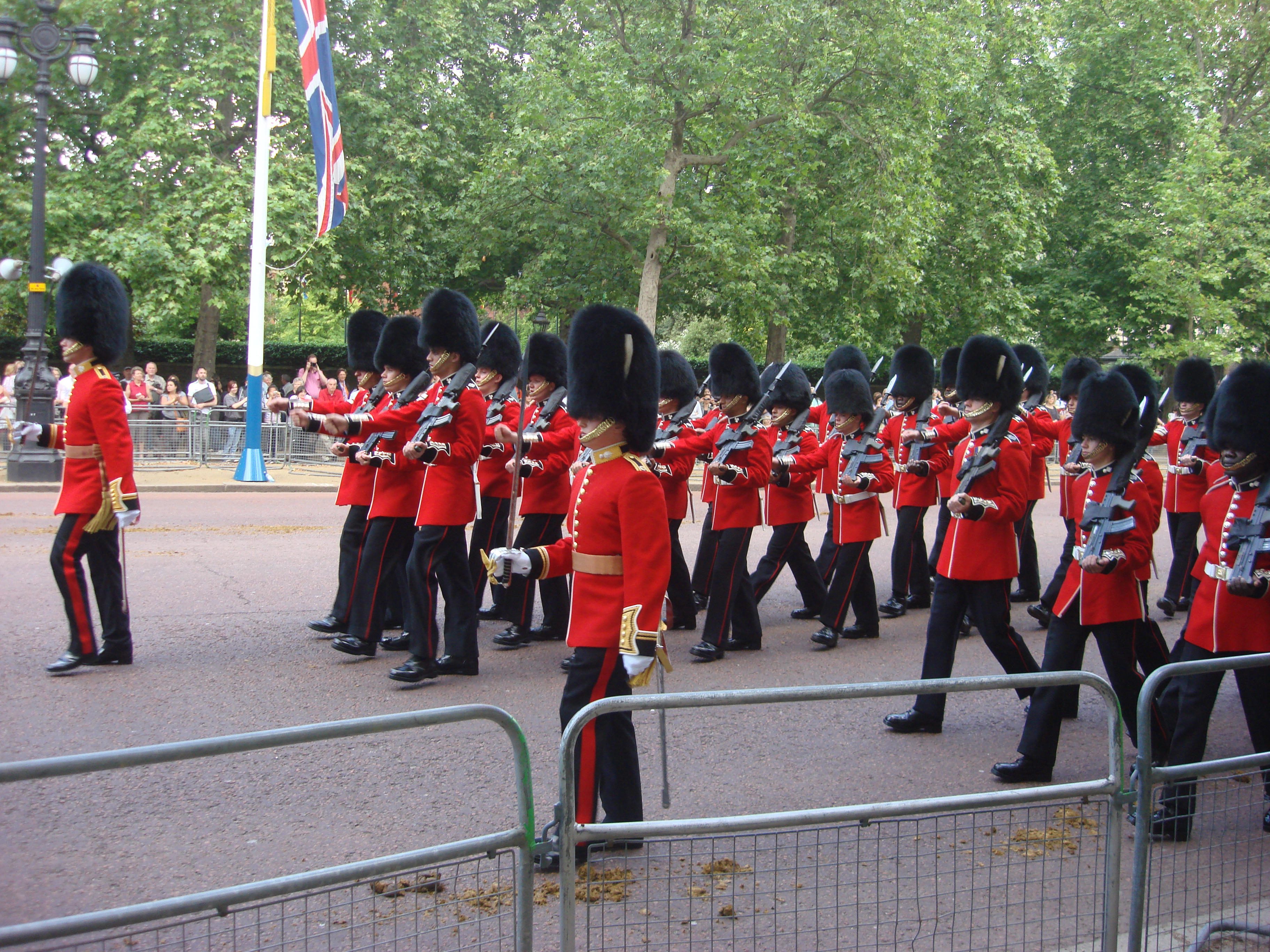 Trooping the Colour 2009